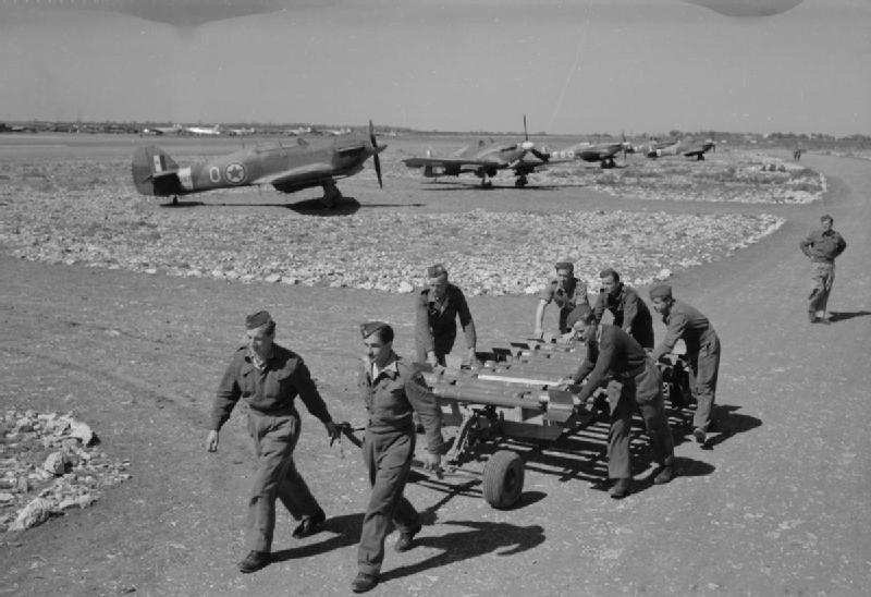 Yugoslav groundcrew wheel a trolley of 3-inch rocket projectiles past re-armed Hawker Hurricane Mark IVs of No. 351 (Yugoslav) Squadron RAF in their dispersals at Prkos, Yugoslavia.